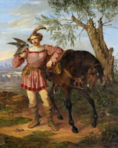 A young falconer